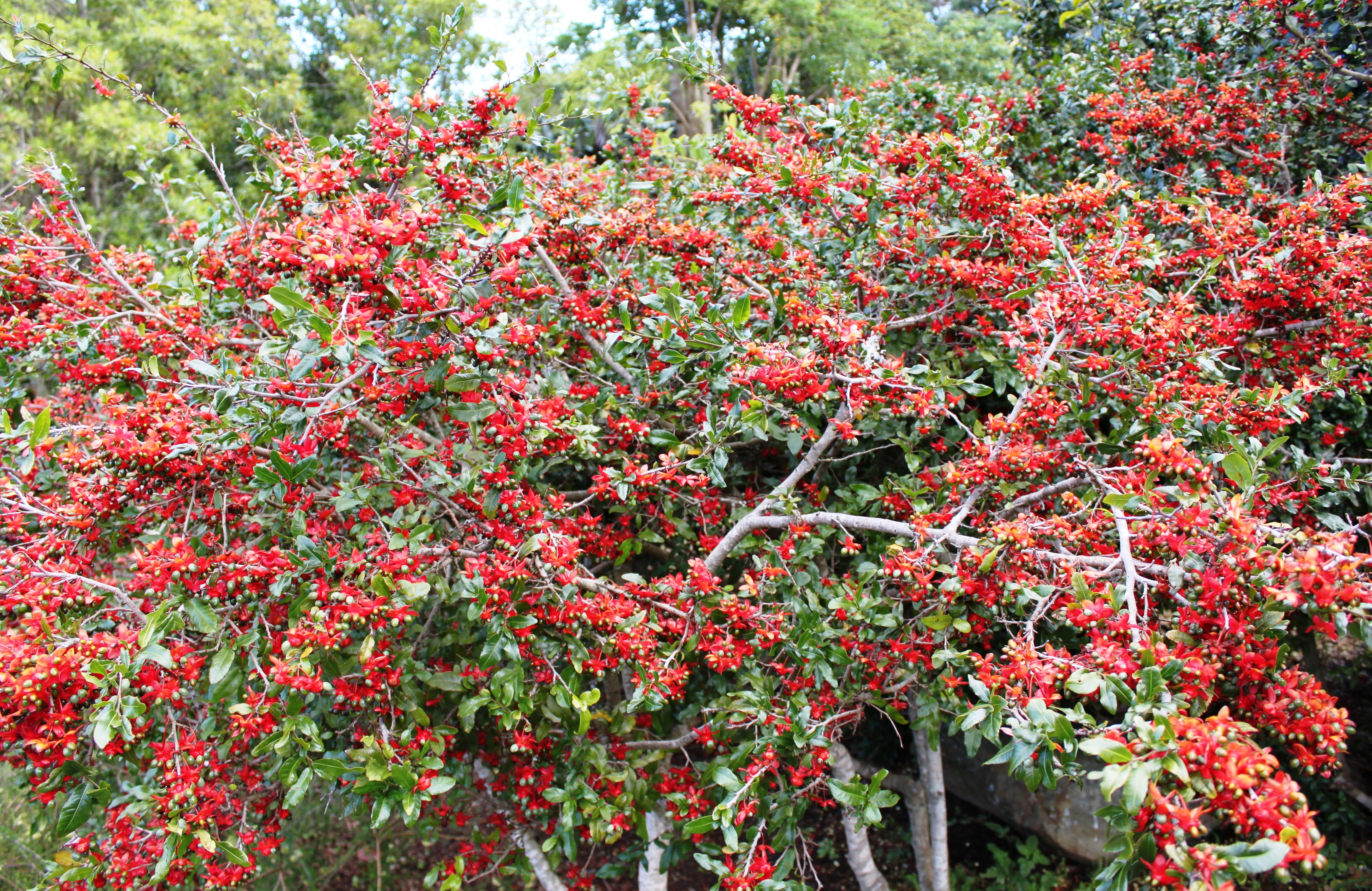 Ochna serrulata bush with unripe fruits. Cape Town.